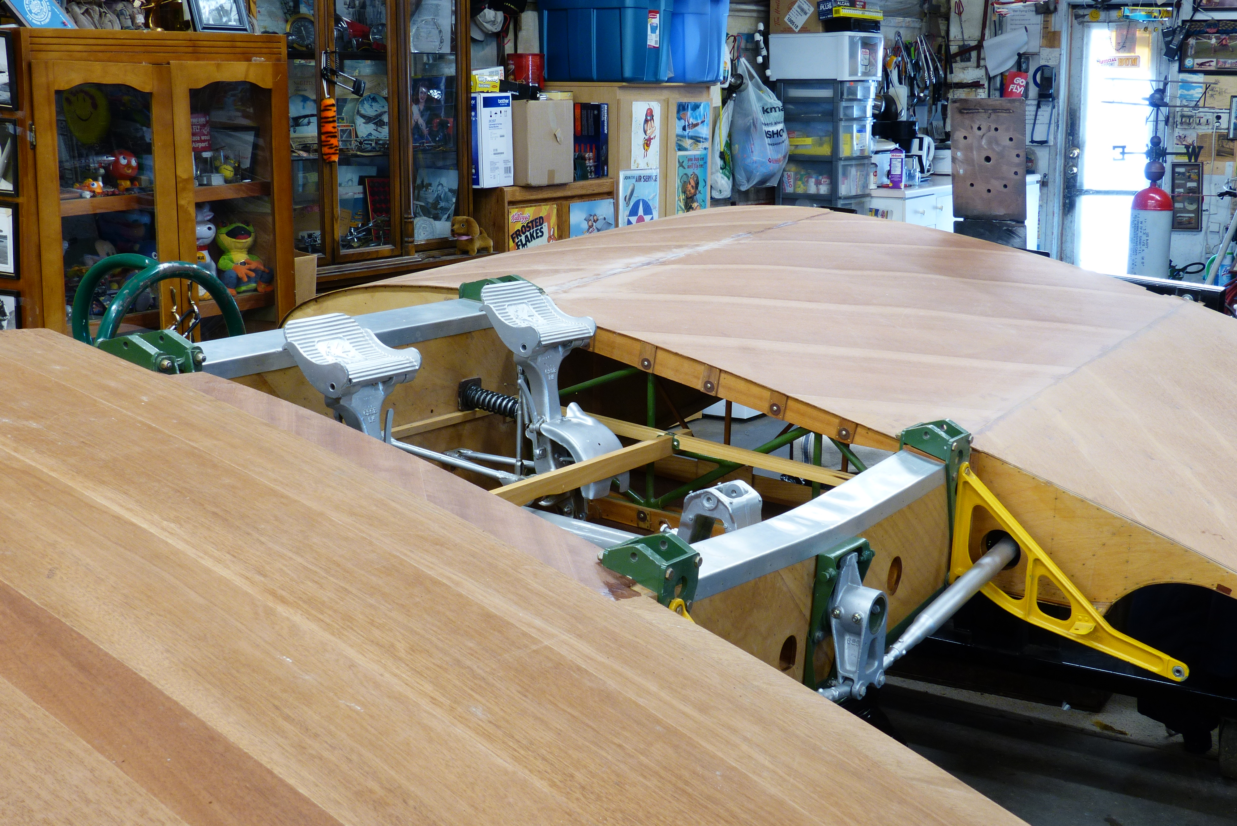 Centre wing section of a Fairchild Cornell, under restoration at the Tiger Boys Aircraft Works at Guelph, Ontario, Canada. Taken with permission from Mr. Tom Dietrich. This wing section, built using "new/old" techniques, is an outstanding example of Second World War American manufacturing techniques. Spars and skins are made of wood, which saved precious metal for the war effort. Metal ribs simplify construction. All metal parts can be made using U.S. mass production techniques of the 1940s.